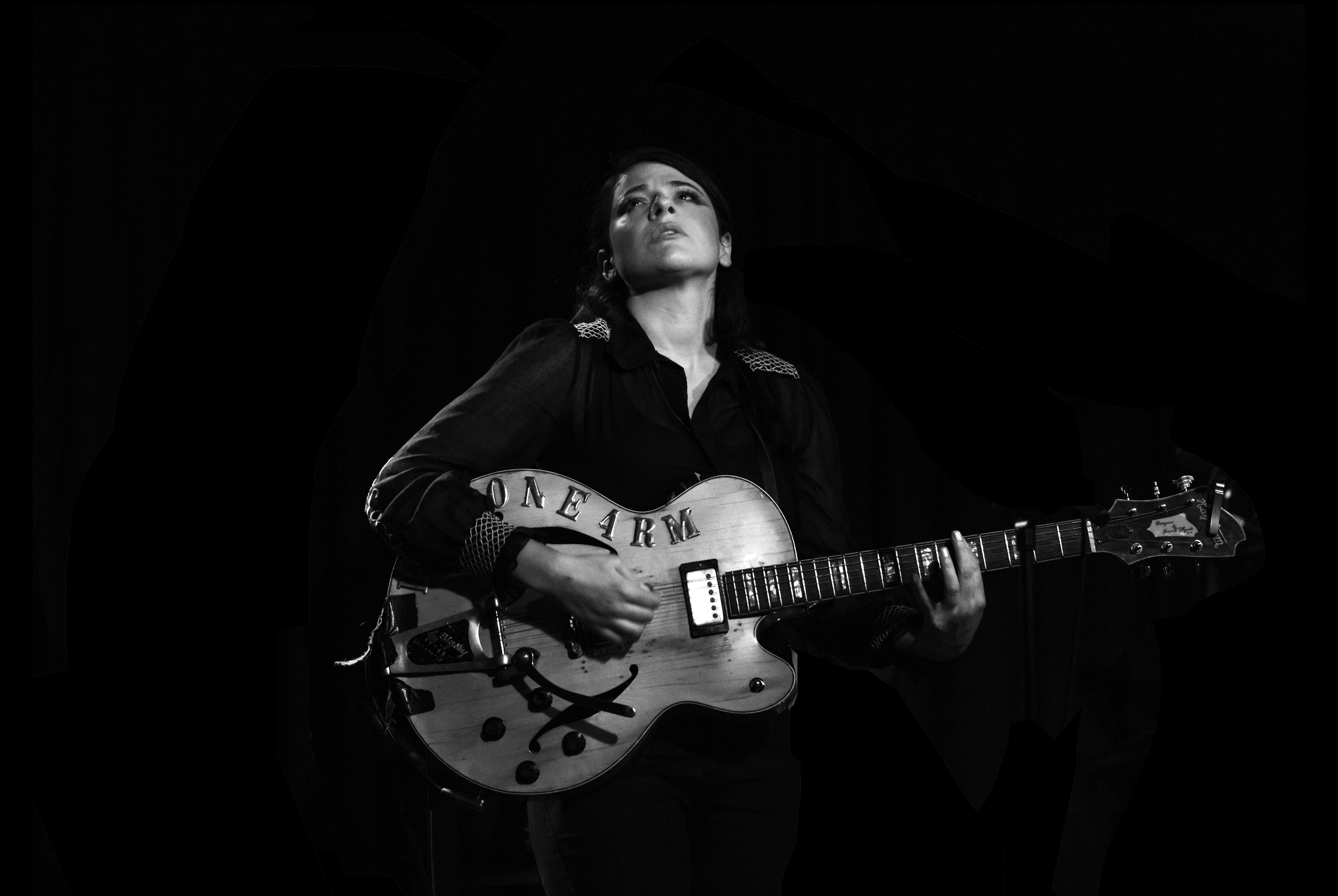 Gemma Ray performing live in concert with her guitar.